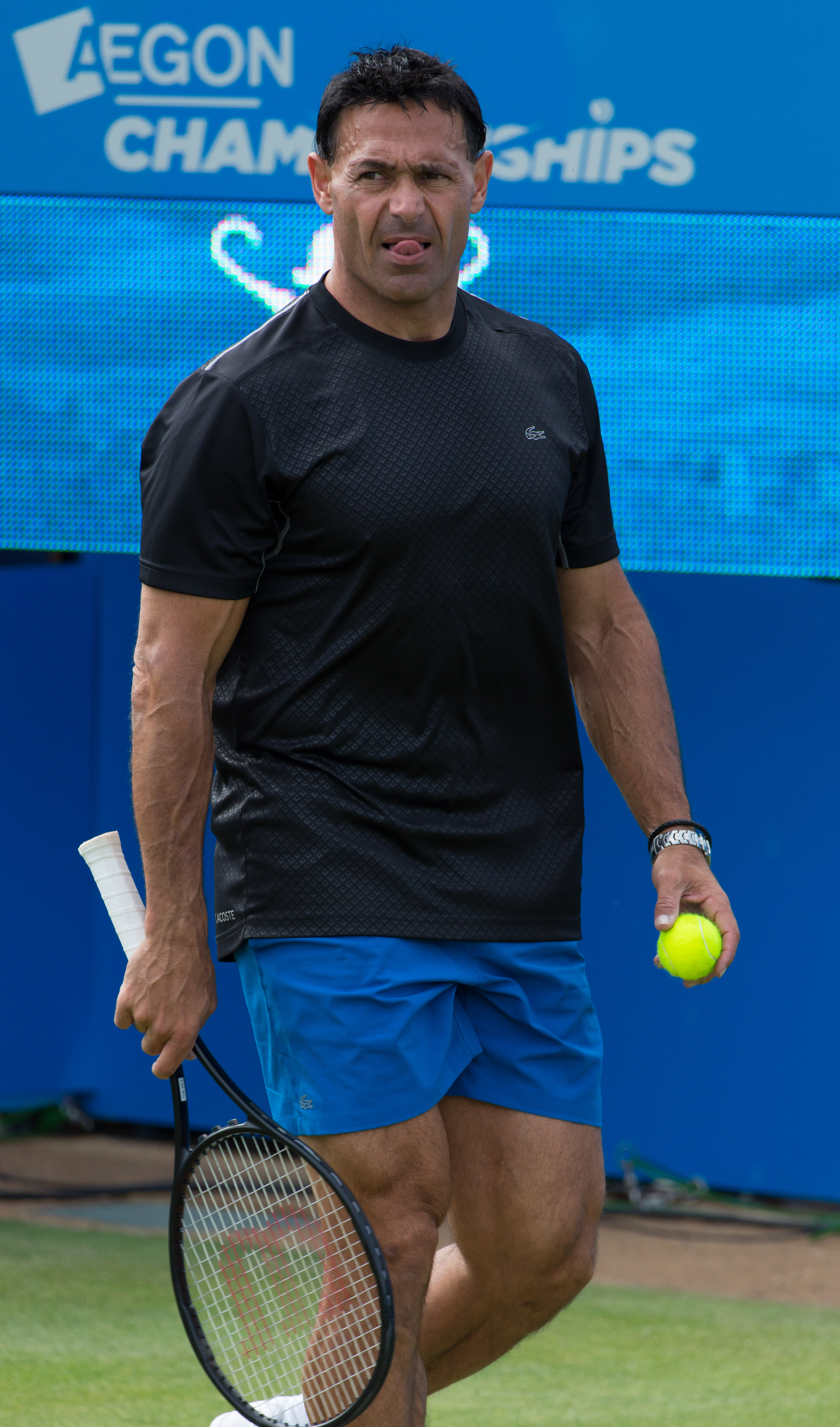 Roger Rasheed coaching Grigor Dimitrov during practice at the Queens Club Aegon Championships in London, England.